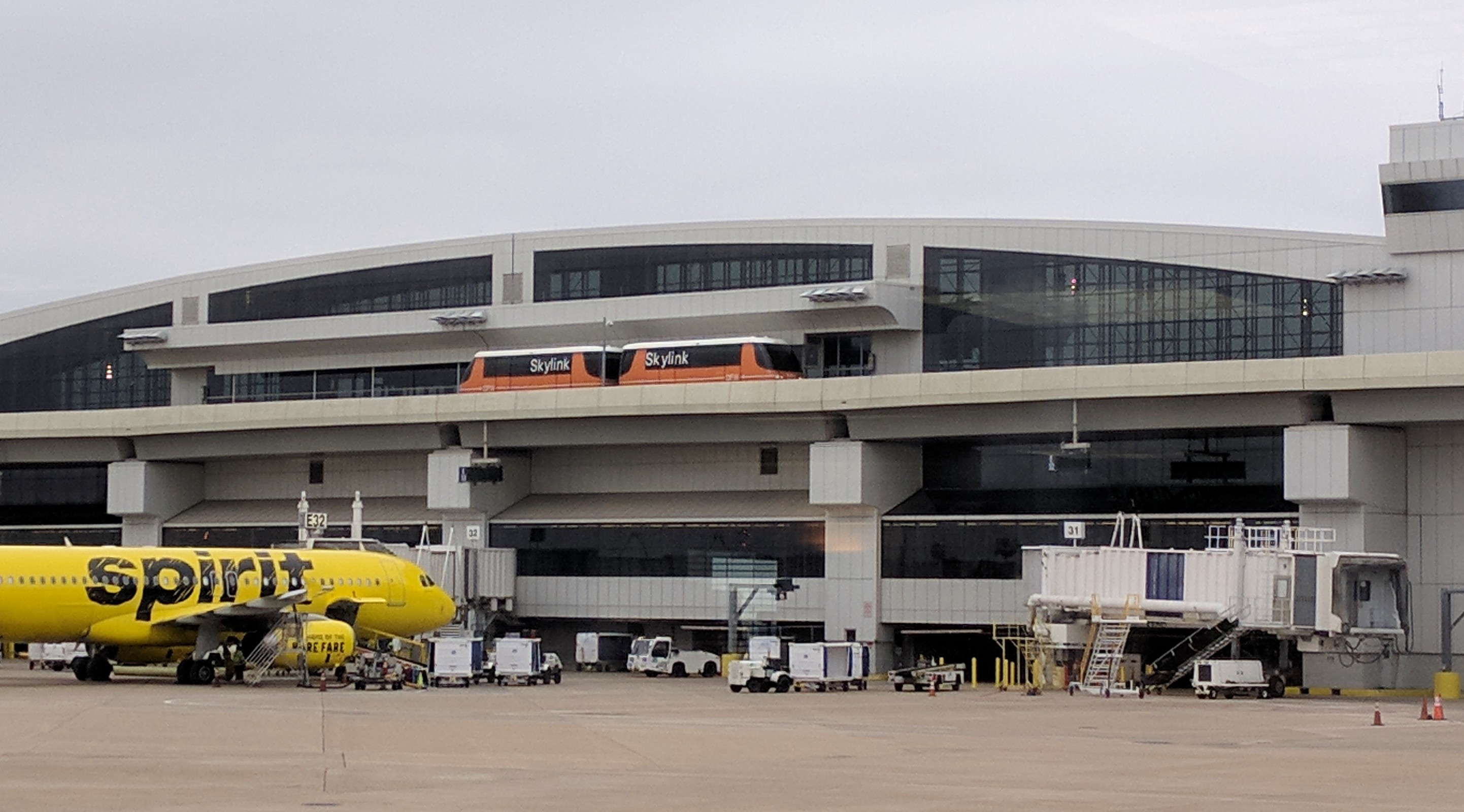 Skylink stopped at Terminal E station between gates E31 and E32.